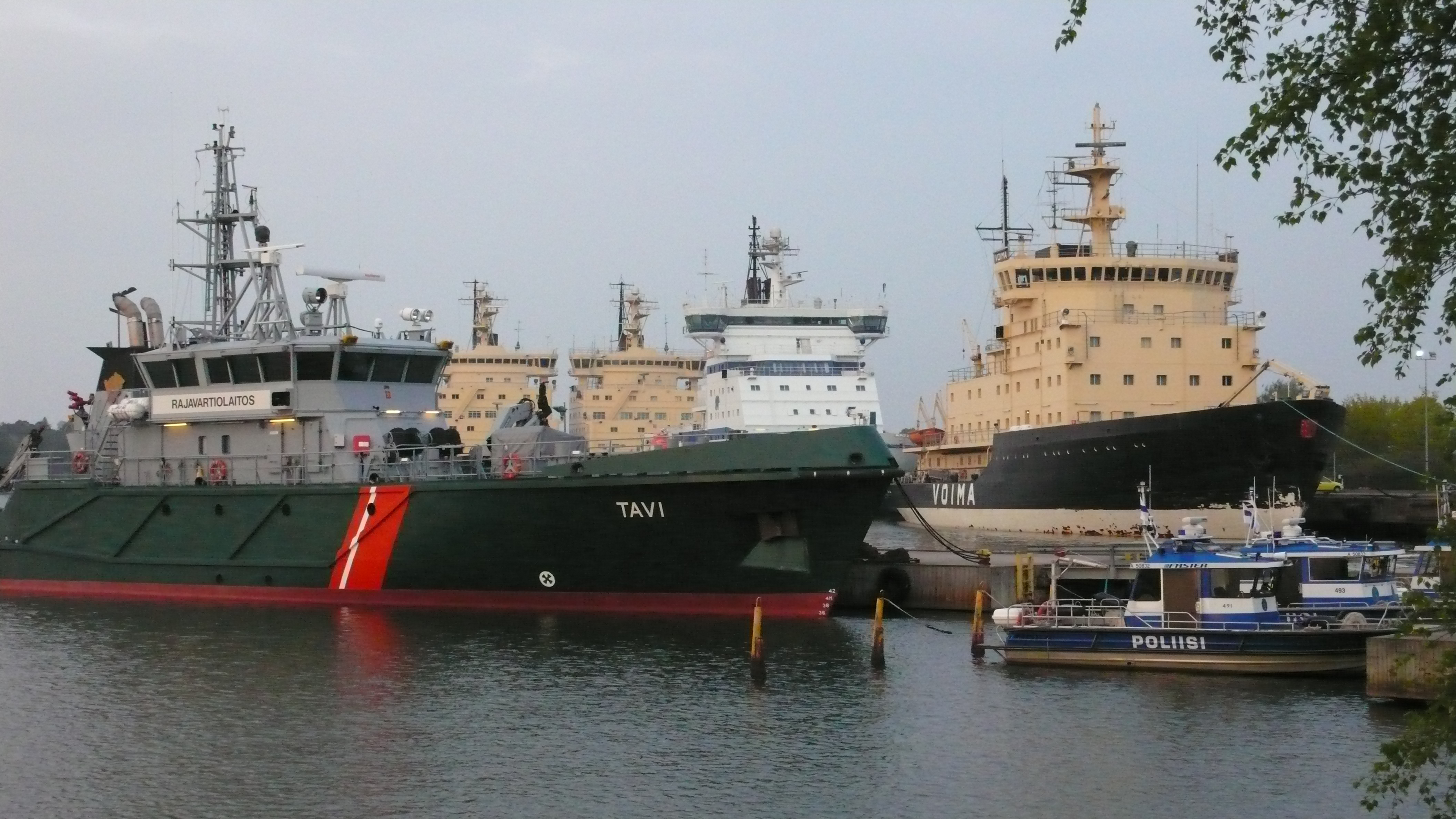 Finnish patrol vessel VL Tavi in Katajanokka, Helsinki